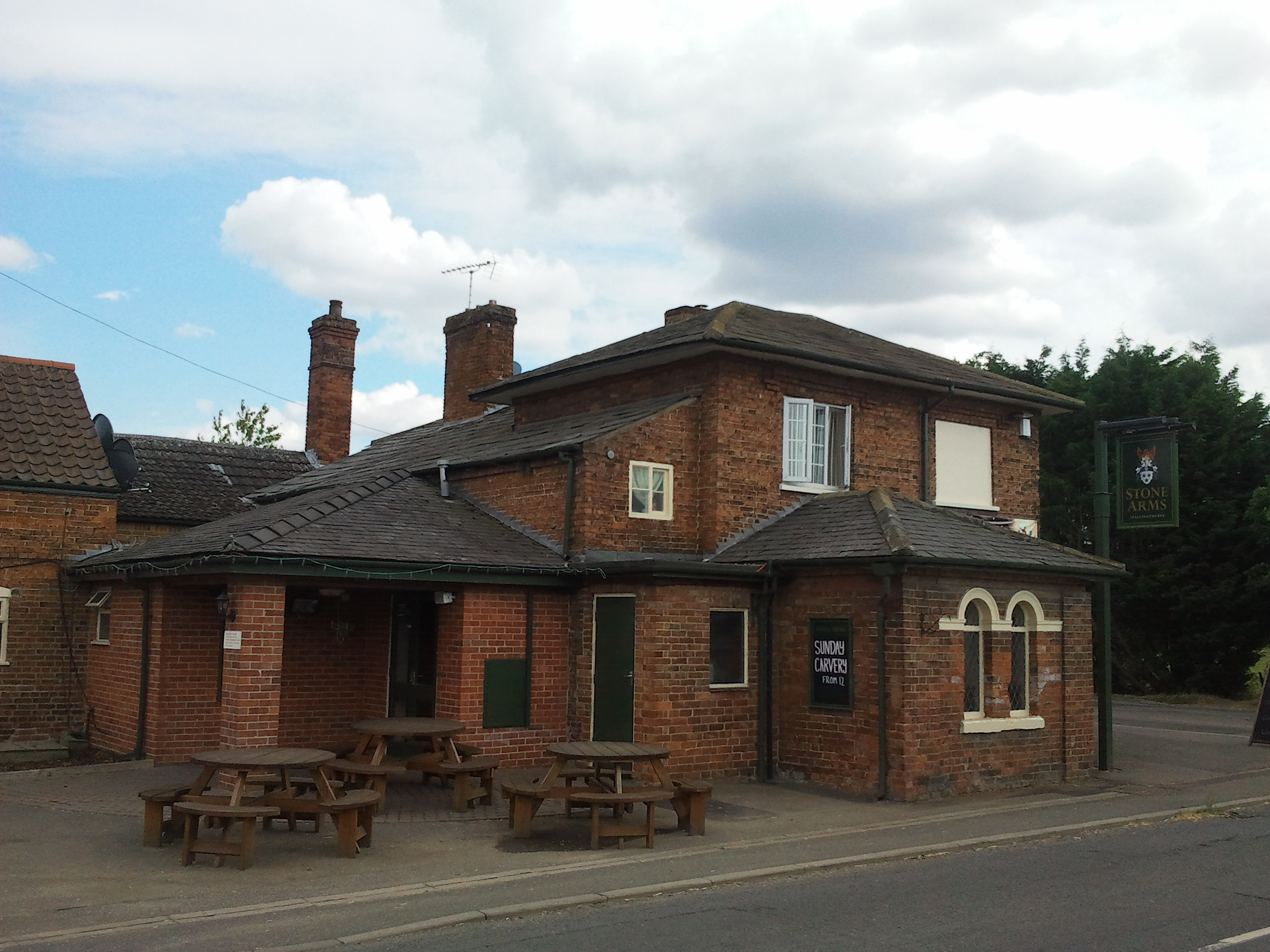 Photo of the historic Stone Arms pub in Skellingthorpe.